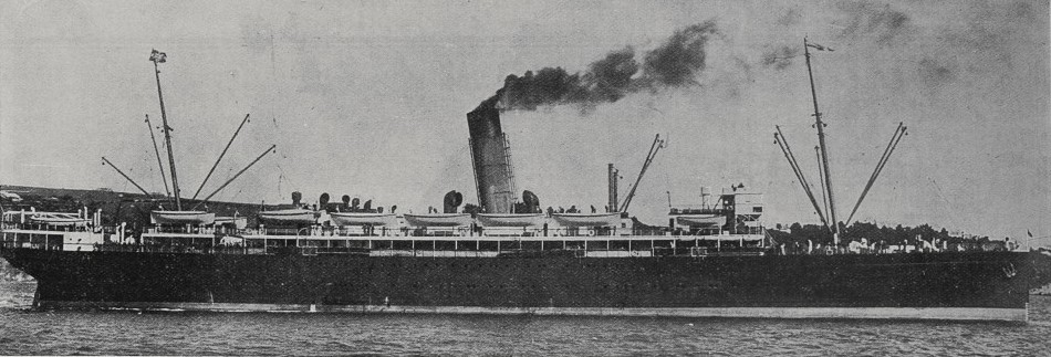 Original caption: A handsome addition to the funnel fleet: the Union Steamship Co.'s new 7000-ton turbine steamer Maunganui, now on her first visit to New Zealand waters.